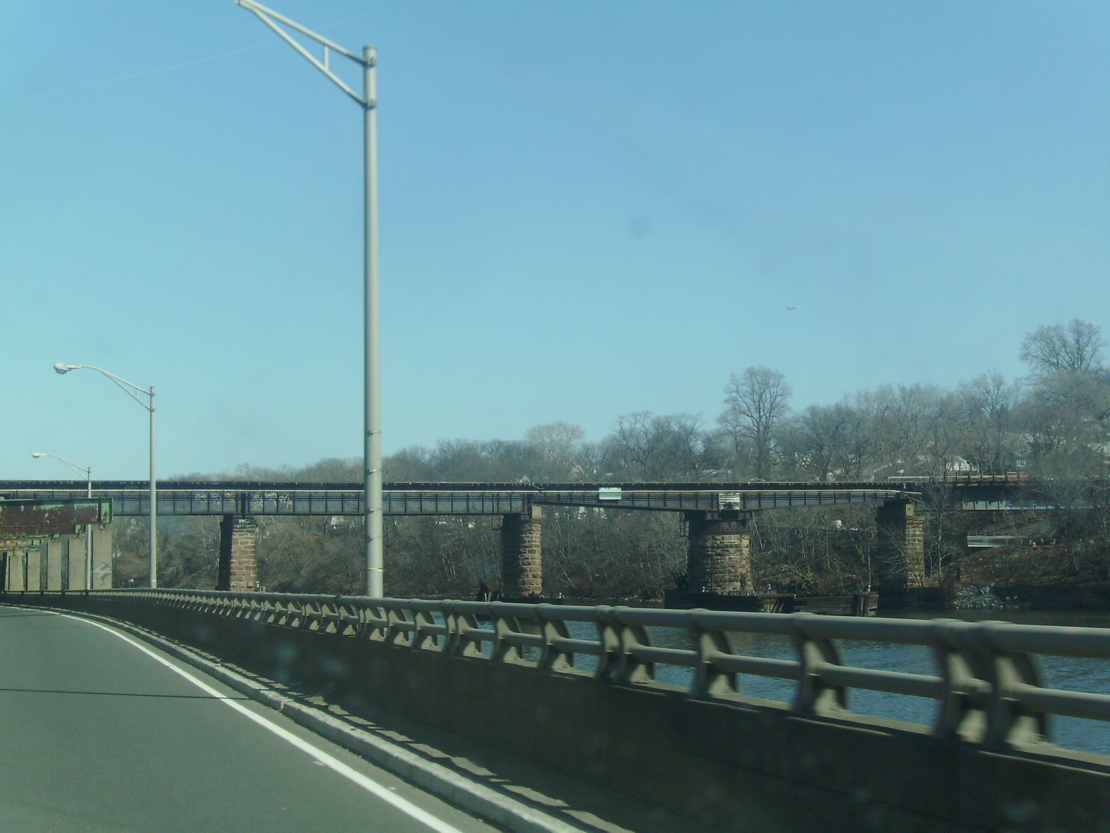 View of WR (West Arlington) Drawbridge crossing from West Arlington (Kearny), New Jersey to North Newark, New Jersey over the Passaic River. Built by New York and Greenwood Lake Railroad. Later acquired by Erie-Lackawanna Railroad, followed by Conrail and New Jersey Transit. The bridge has been condemned and not seen a New Jersey Transit train since 2002.